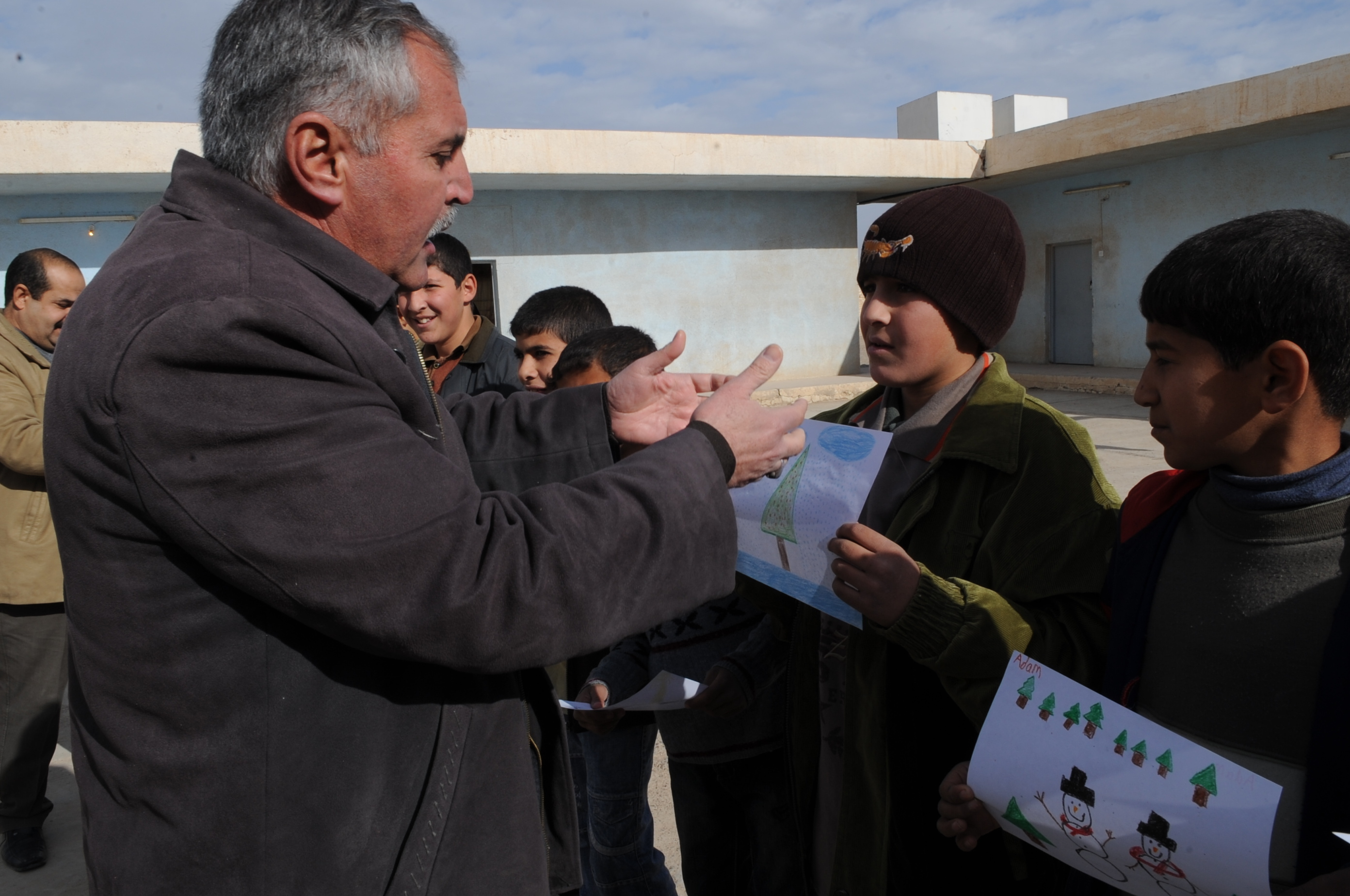 An Iraqi school teacher from Samarra, Iraq, hands out drawing sent from American children in order to start a pen pal program. The drawings were delivered by U.S. Soldiers from Charlie Company, 2nd Infantry Battalion, 35th Infantry Regiment, 3rd Brigade Combat Team, 25th Infantry Division on Dec. 30, 2008.